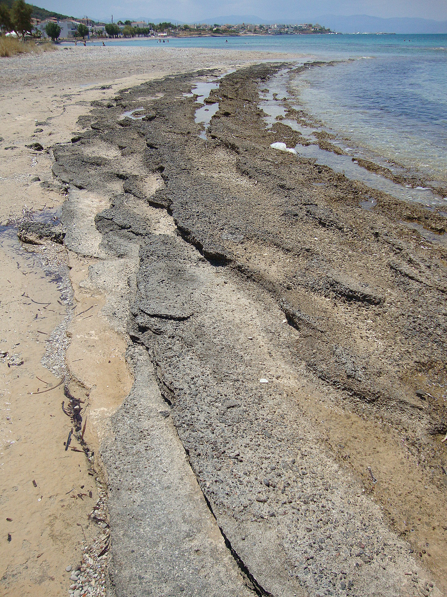 (Agistri,Skala)